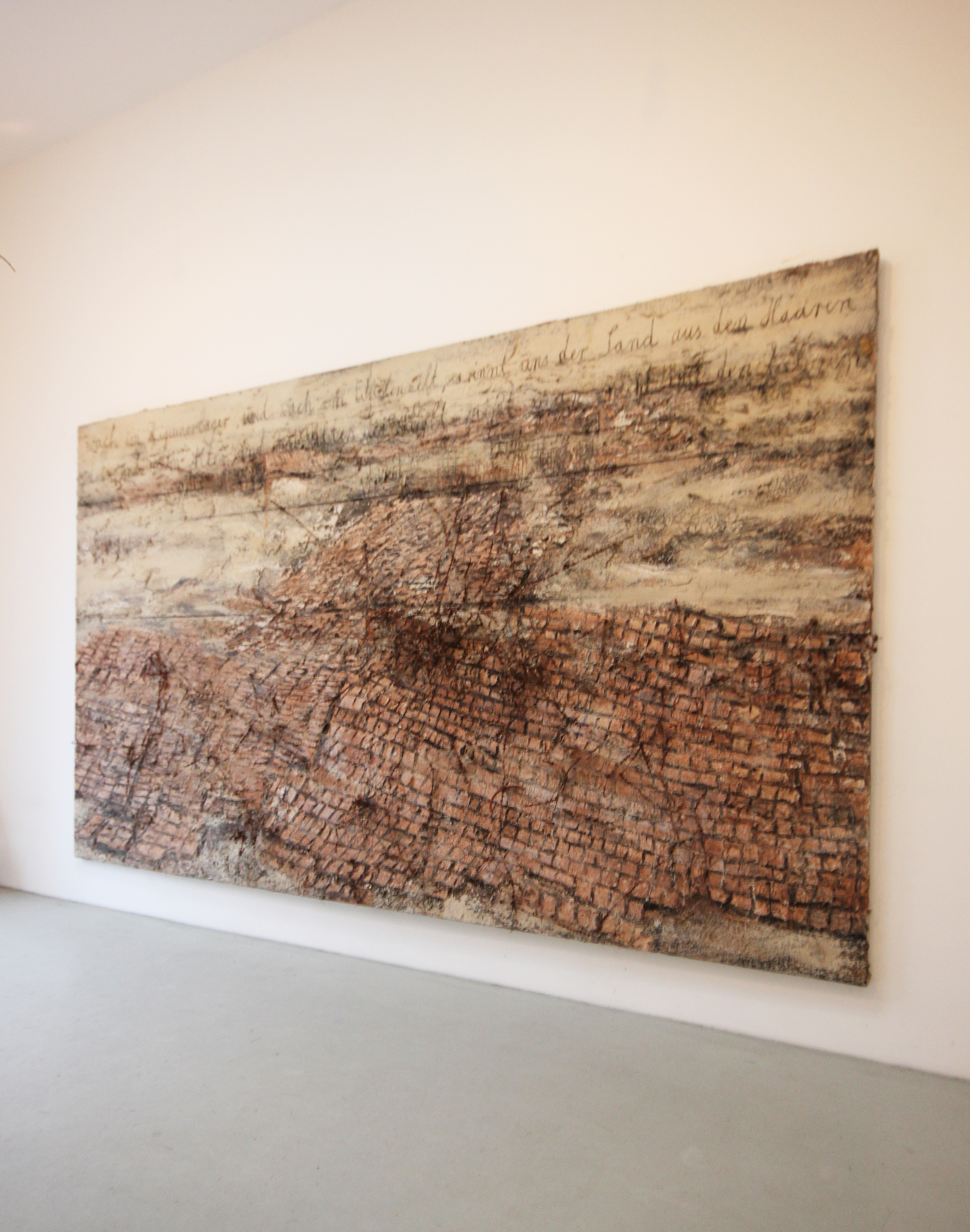 Anselm Kiefer: A.E.I.O.U., painting: "Awake In The Gypsy Camp!", inspired by the Ingeborg Bachmann's poem "The game is over". Salzburg, Furtwänglerpark, 2013. Artwork in the public space. Owner: Würth Group.